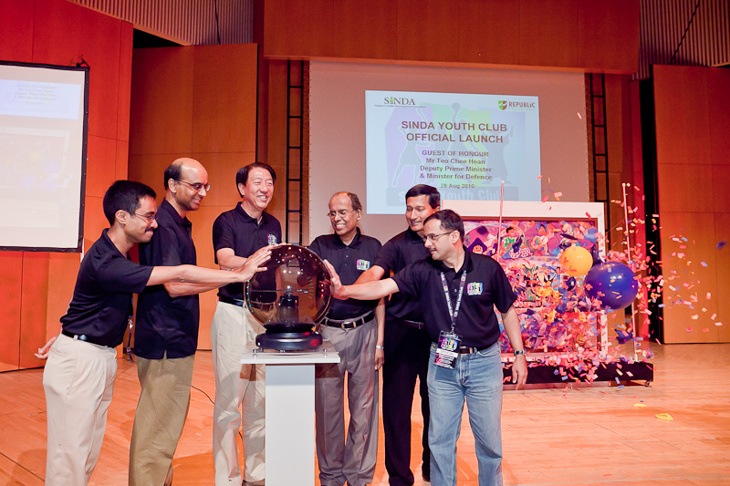 GOH @ the SYC Launch